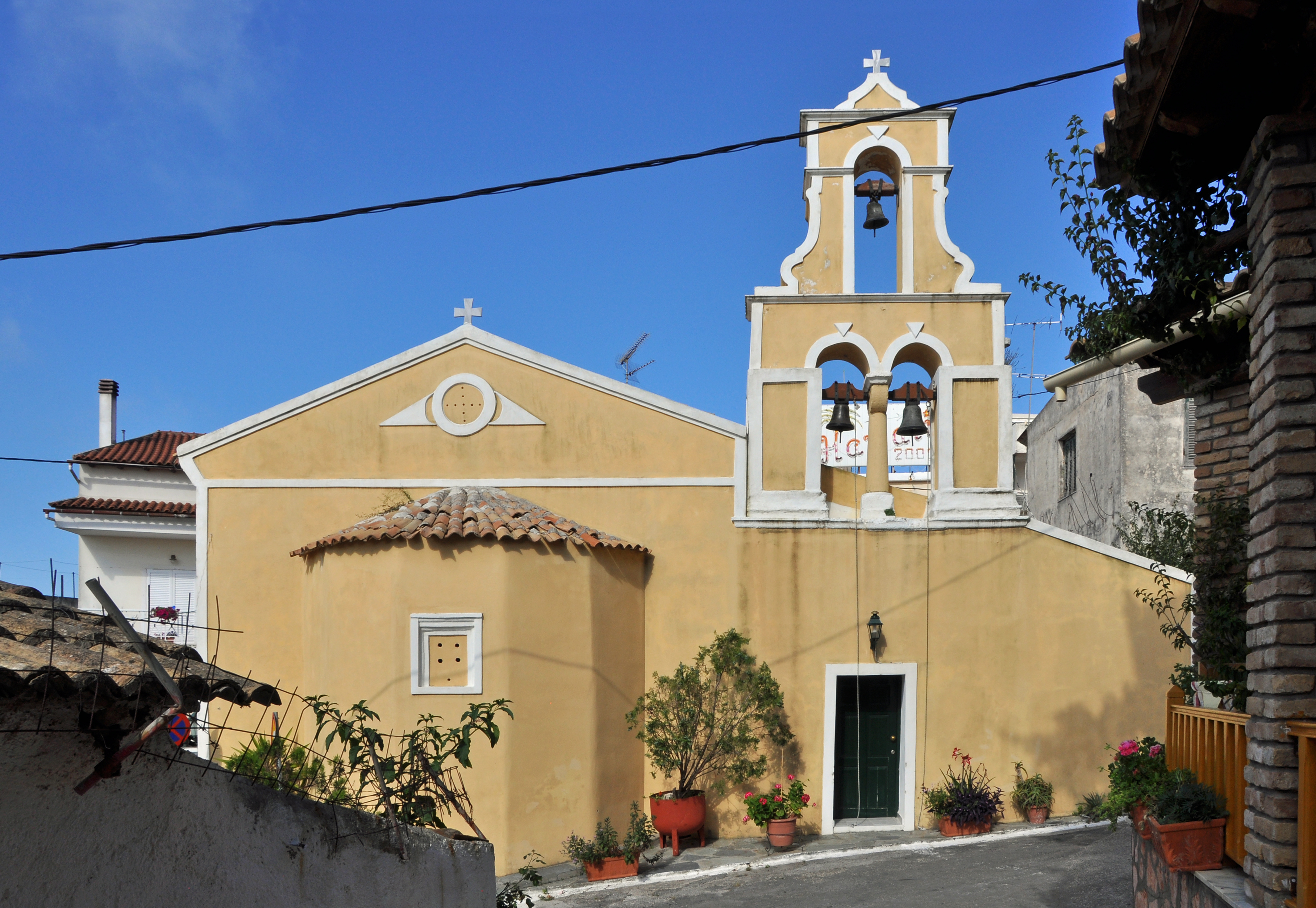 Pelekas (Corfu, Greece): St Nikolaos and Antonios church